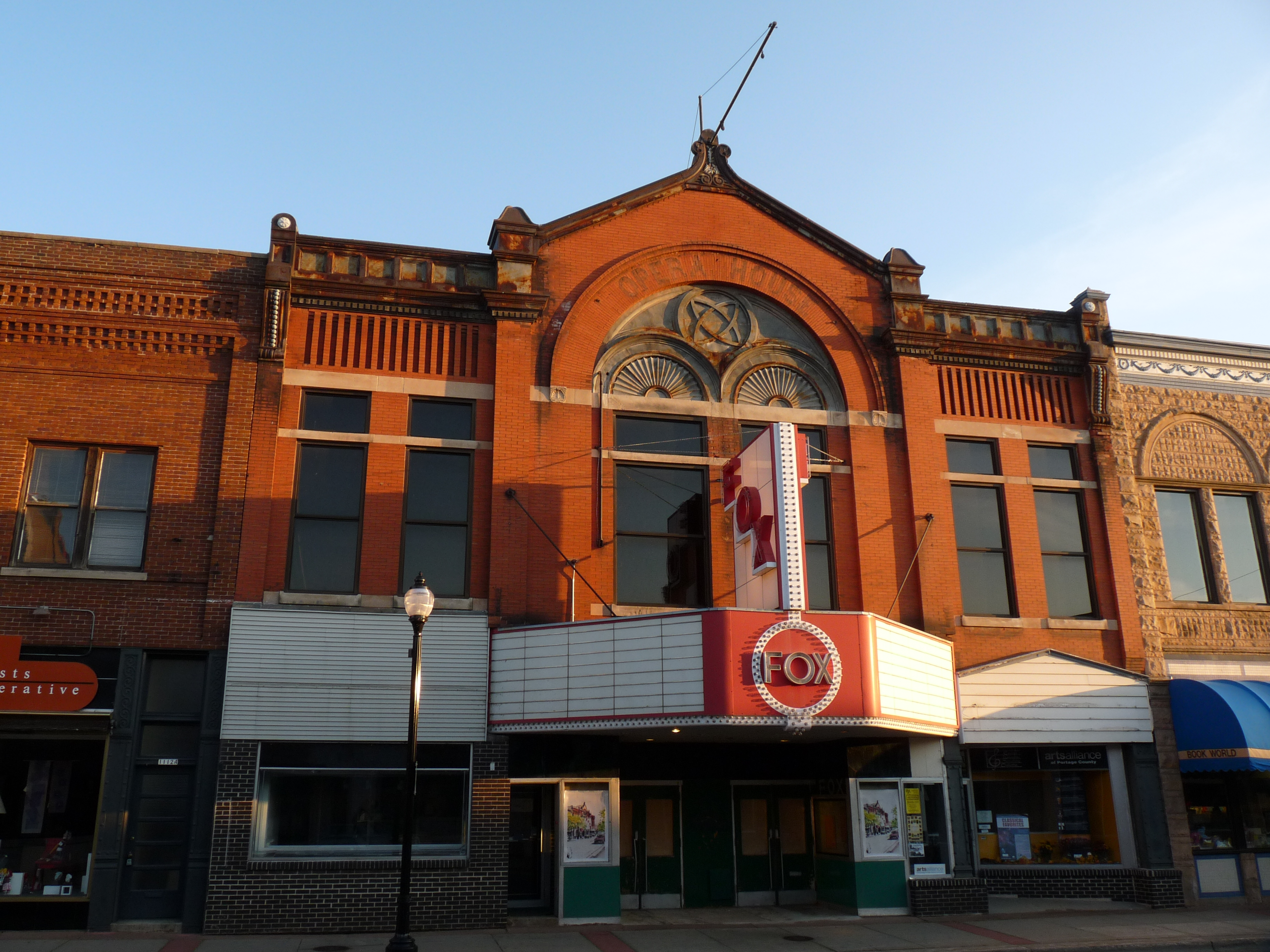 The Grand Opera House in Stevens Point, Wisconsin, was built in 1896. Later it was refashioned as the Fox Theater. Today it is on the National Register of Historic Places.